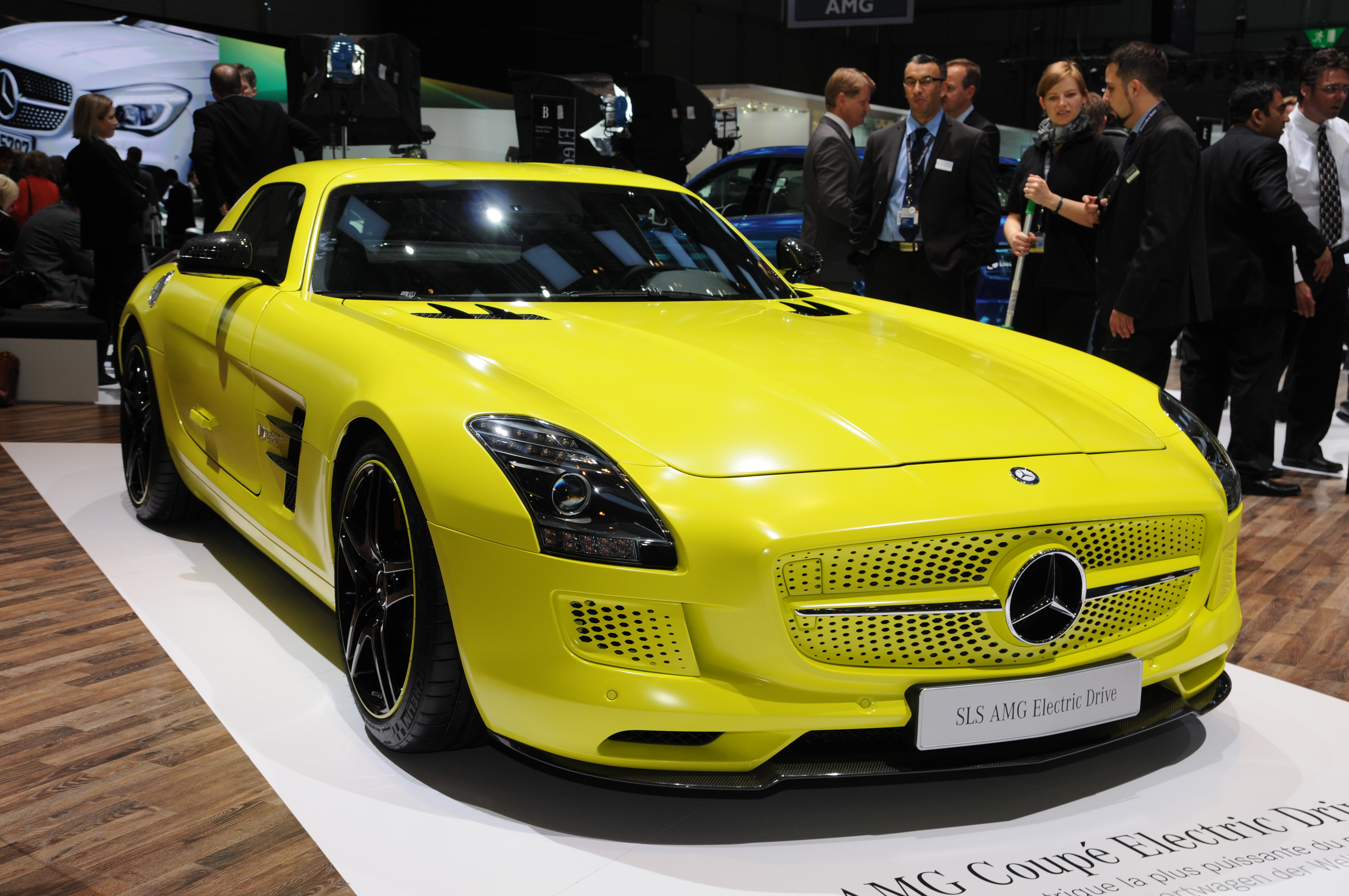 Geneva Motor Show 2013 (photos taken on the first press day)